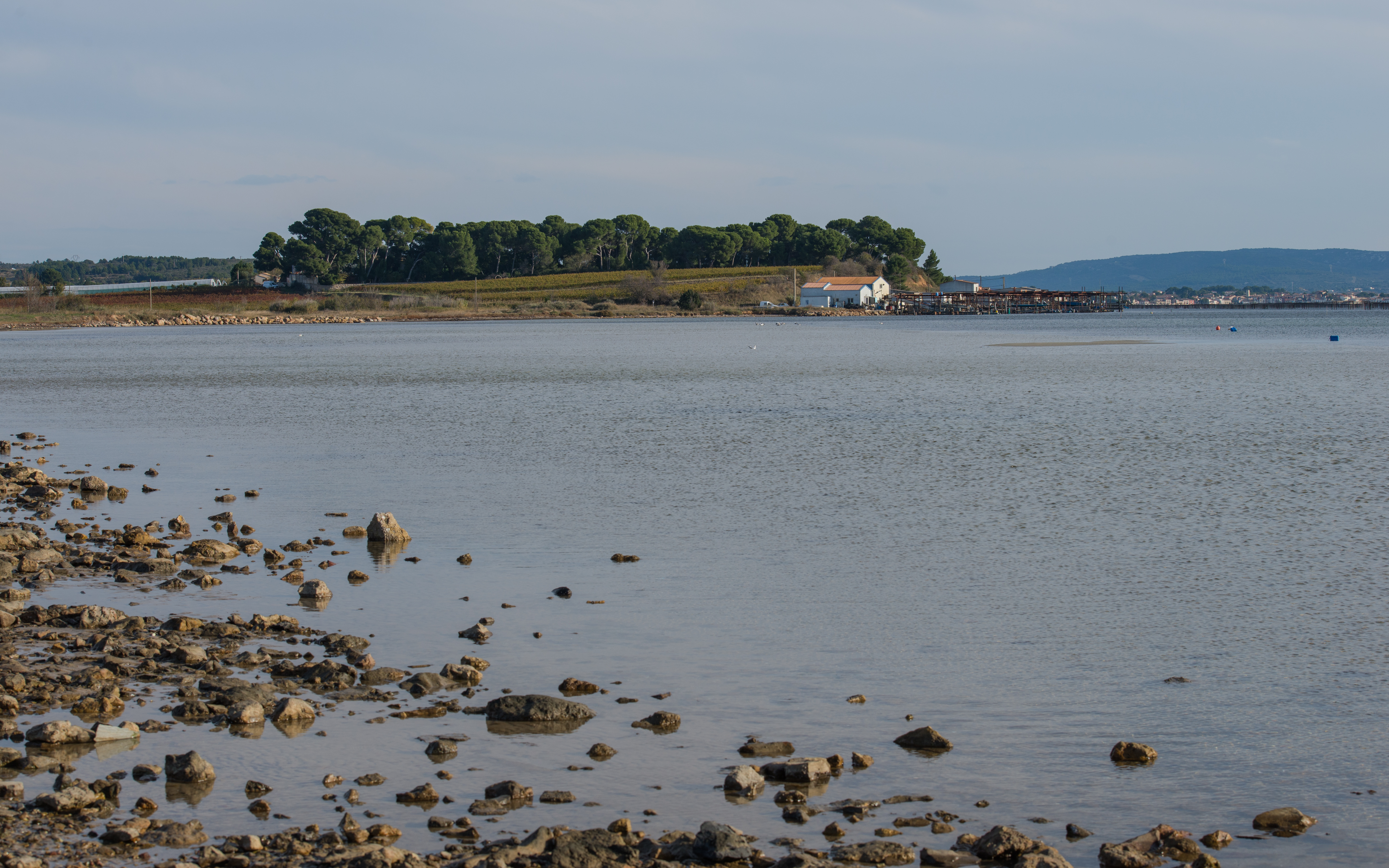 The place "Saint-Félix" in Loupian. From the Southwest in Mèze, Hérault, France.